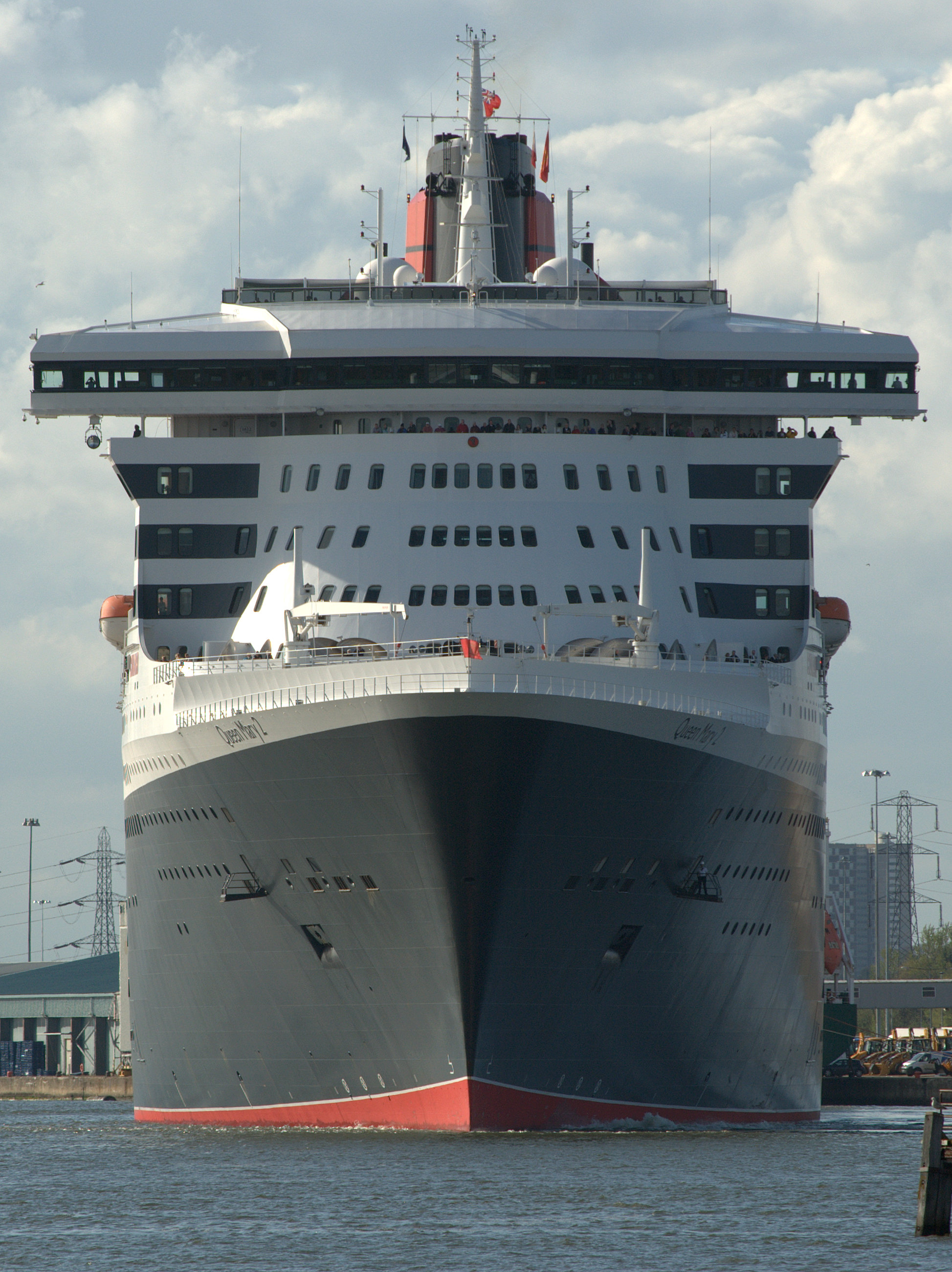 Tonnage: 148,528 GT Length: 1,132 ft (345 m) Beam: 135 ft (41 m) waterline, 147.5 ft (45.0 m) extreme (bridge wings) Height: 236.2 ft (72.0 m) keel to (top of) funnel Draught:33 ft (10.1 m) Decks: 13 passenger, 17 total decks[4] Installed power: 4 x Wärtsilä 16V 46C-CR / 16,800 kW (22,848 mHP), 2 x GE LM2500+ / 25,060 kW (34,082 mHP) Propulsion: Four 21.5 MW Rolls-Royce/Alstom "Mermaid" electric propulsion pods: 2 fixed and 2 azimuthing Speed: 30 knots (56 km/h; 35 mph) Capacity: 2,620 passengers Crew: 1,253 officers and crew (Via